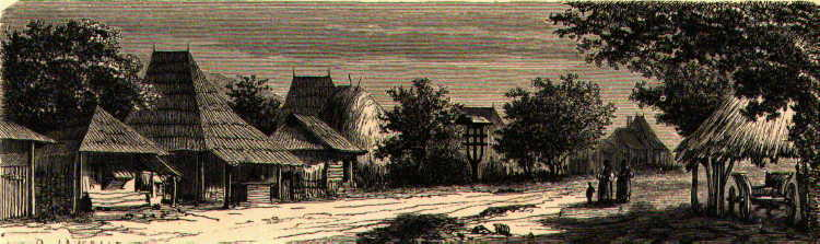 Gorj houses